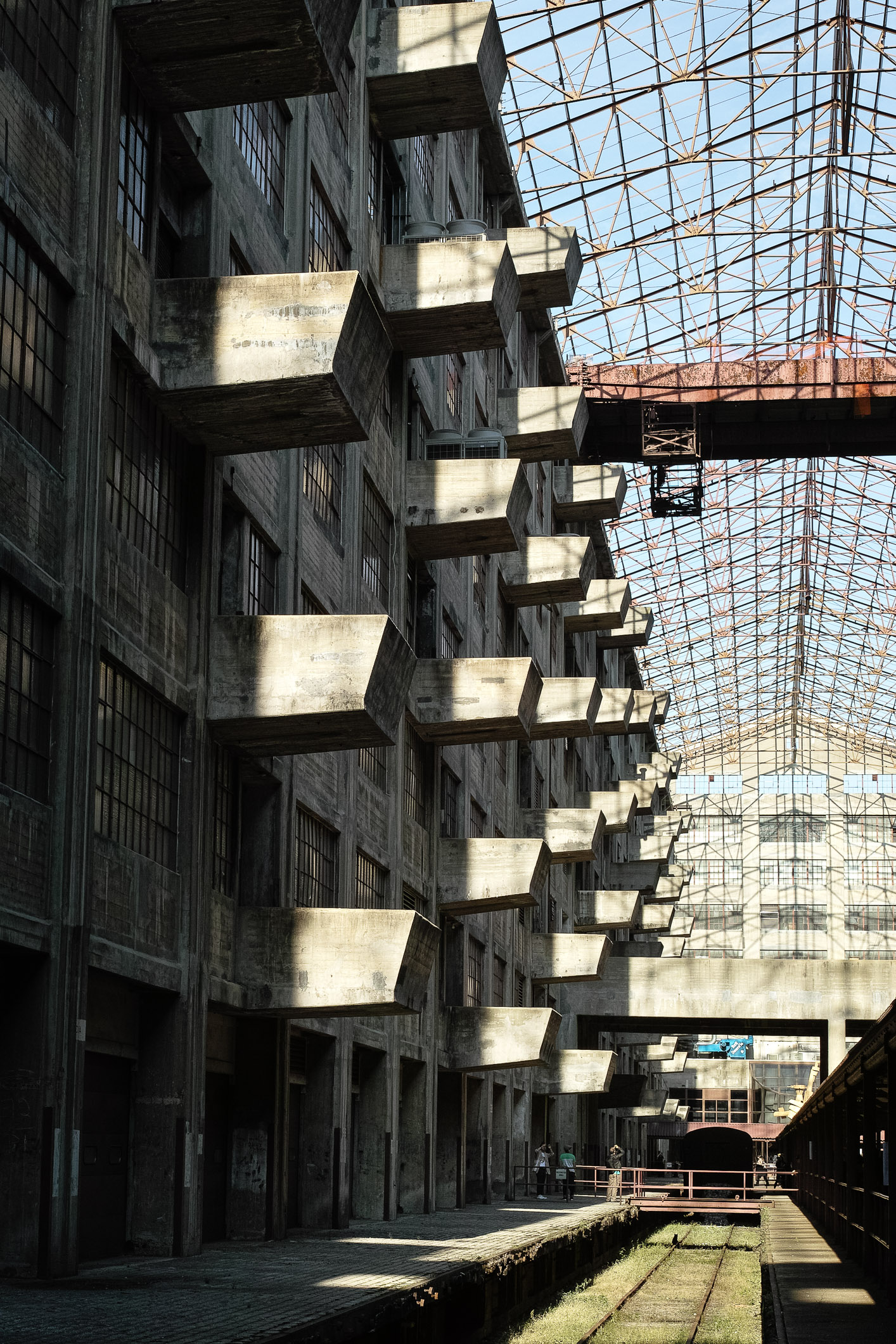 Balconies of the Brooklyn Army Terminal on Open House New York Weekend lit by the afternoon sun while the rest of the wall is in dark shade.Site: Brooklyn Army Terminal